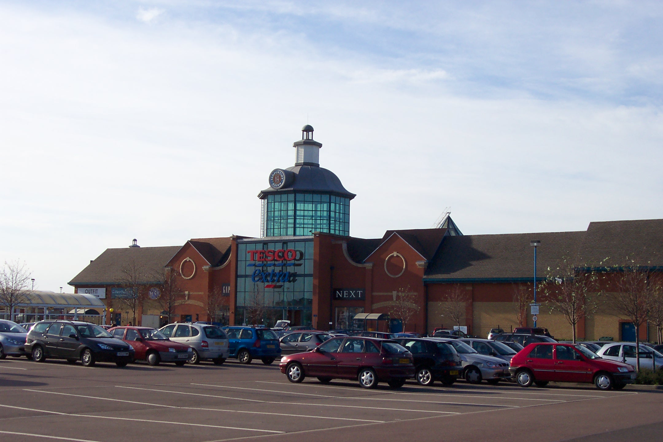 Photo taken by me User:Lofty